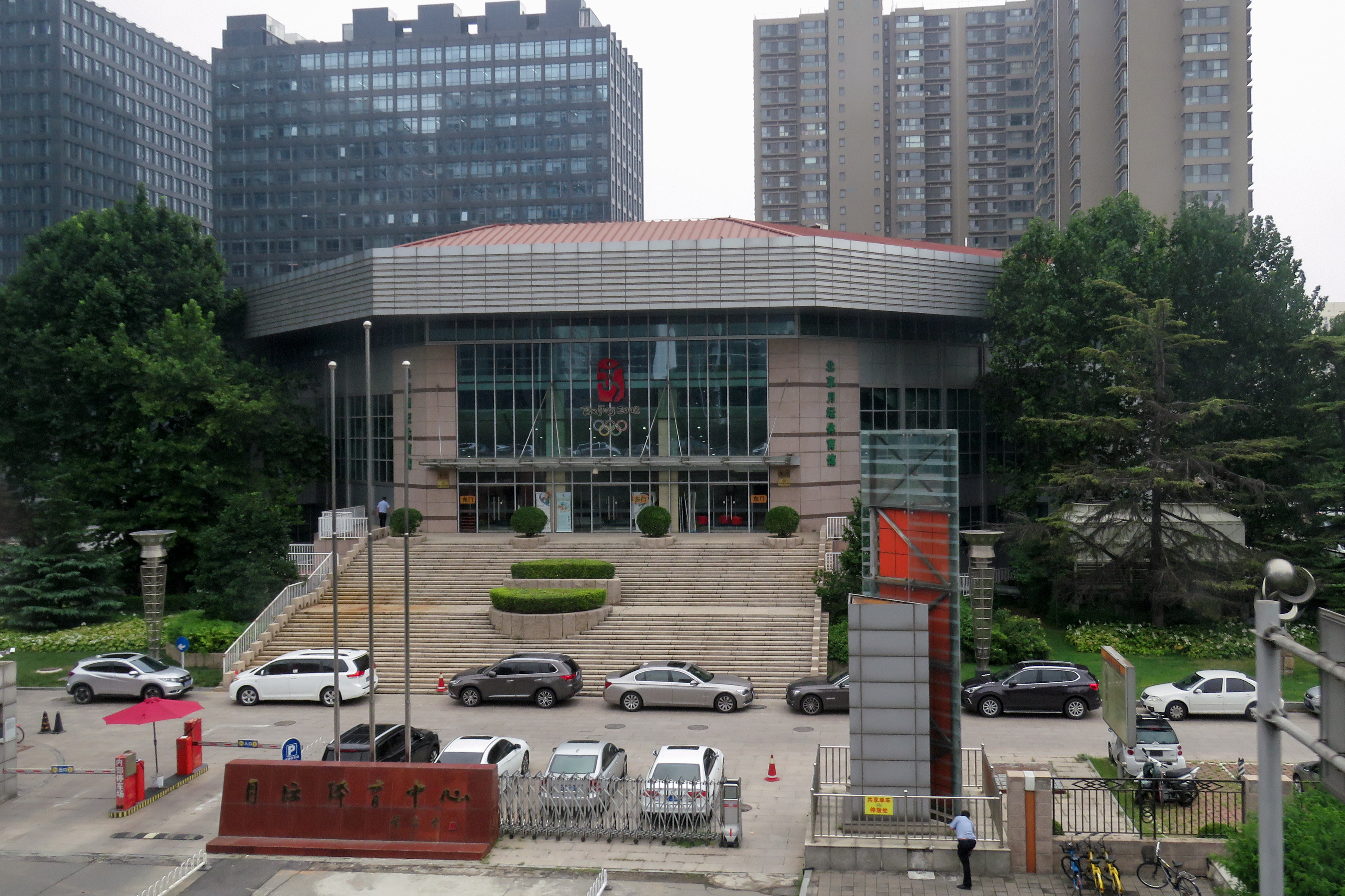 It has been a decade since the Beijing Olympic Games...